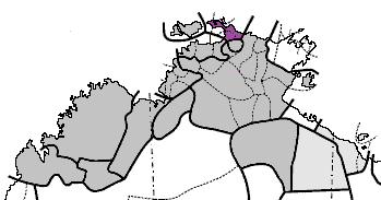 Iwaidjan languages (purple), among other non-Pama-Nyungan languages (grey)